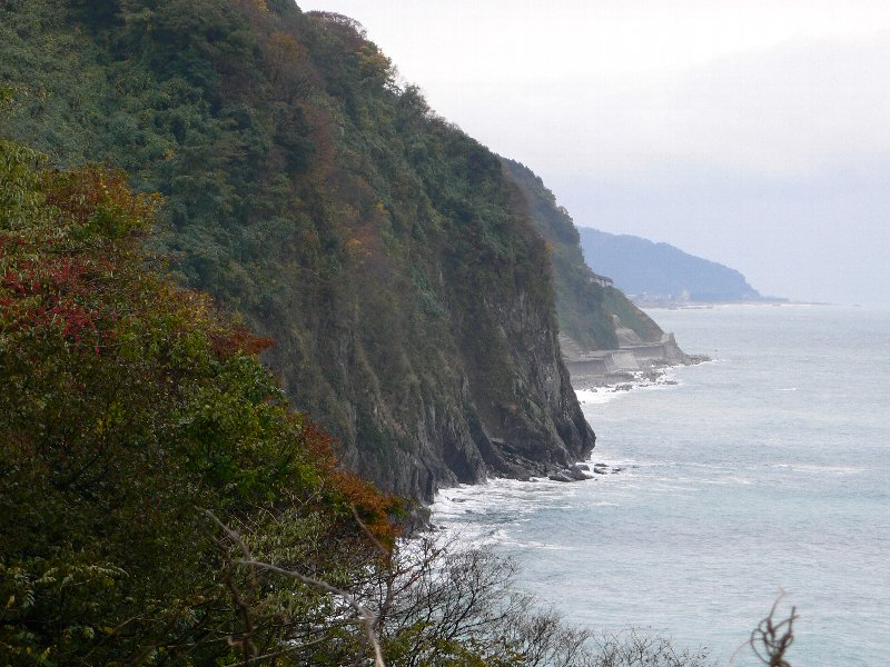 Ten-Ken cliff of Oya-Shirazu, Niigata, Japan.